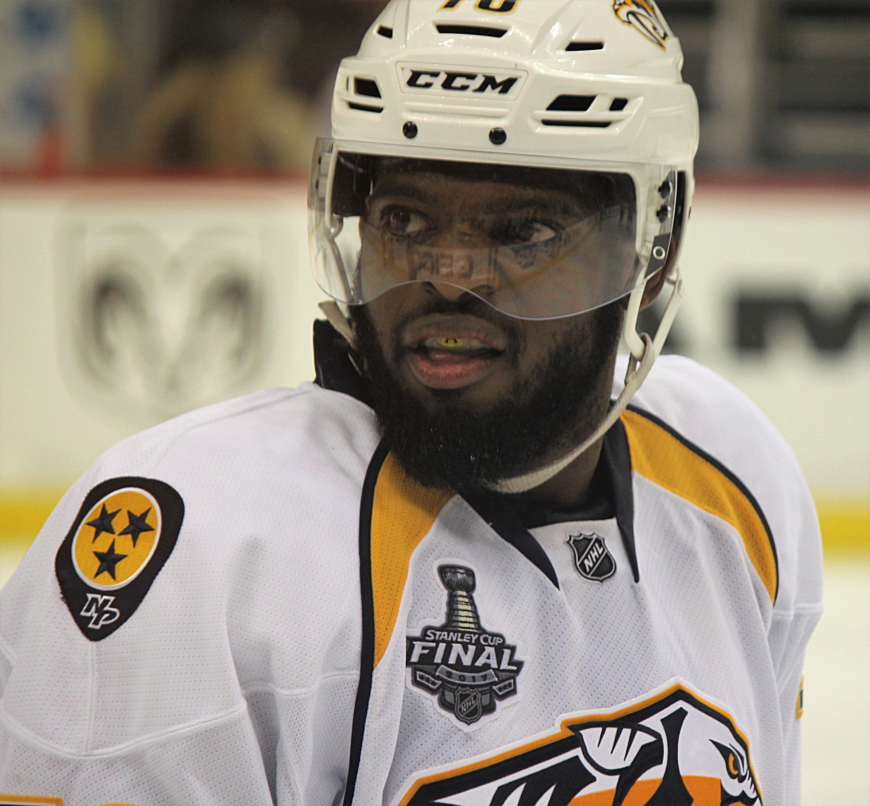 Nashville Predators defenseman P.K. Subban during game 5 of the Stanley Cup Final against the Pittsburgh Penguins, June 8, 2017, at PPG Paints Arena in Pittsburgh, PA.